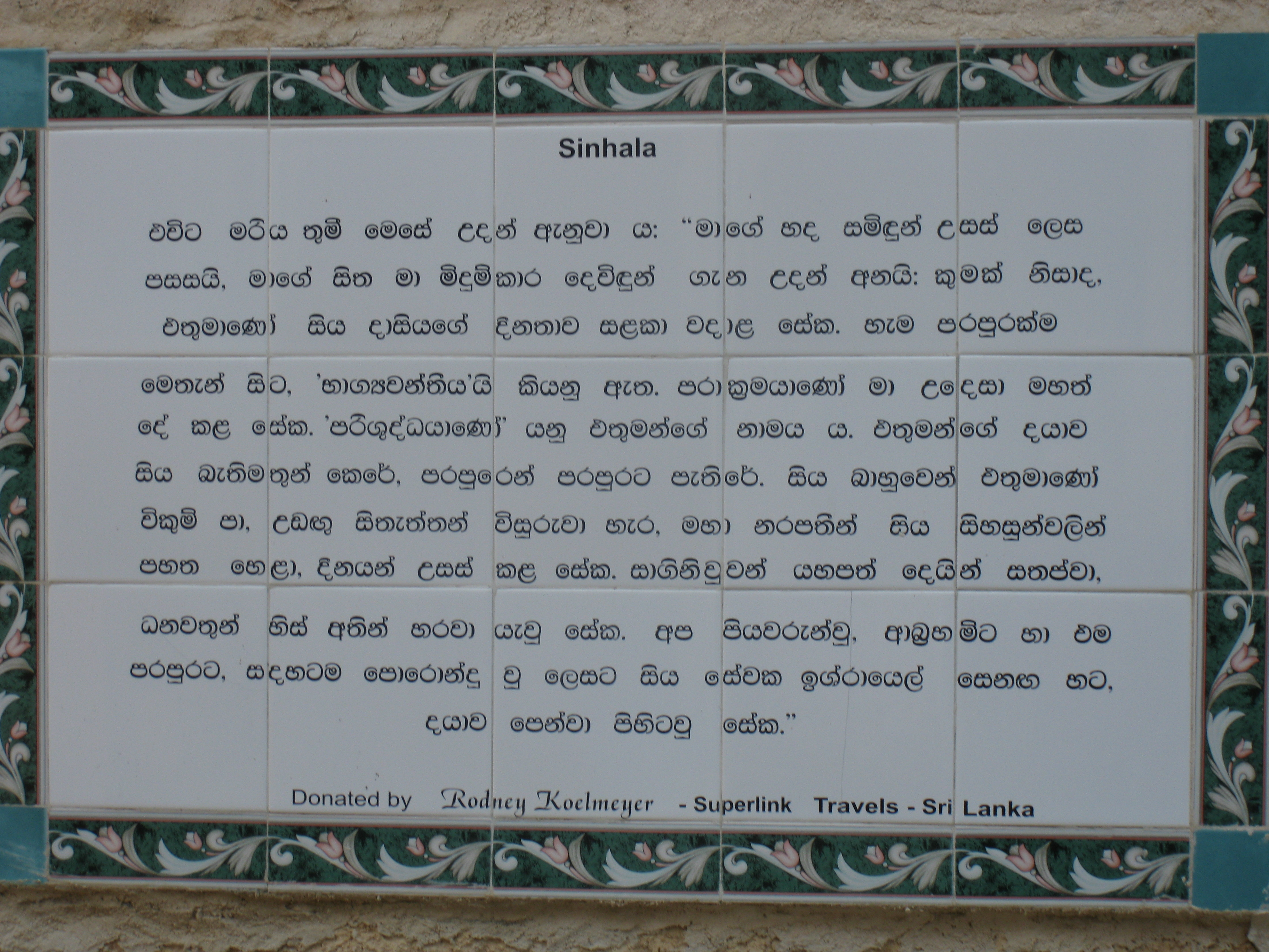 The Magnificat in the Church of the Visitation